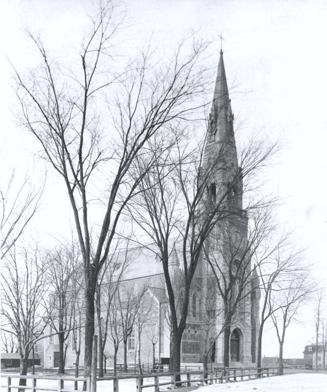 Photograph, Church, St. Cyprien de Napierville, Napierville, QC, about 1890, Silver salts on paper mounted on card - Albumen process - 23.5 x 19.5 cm